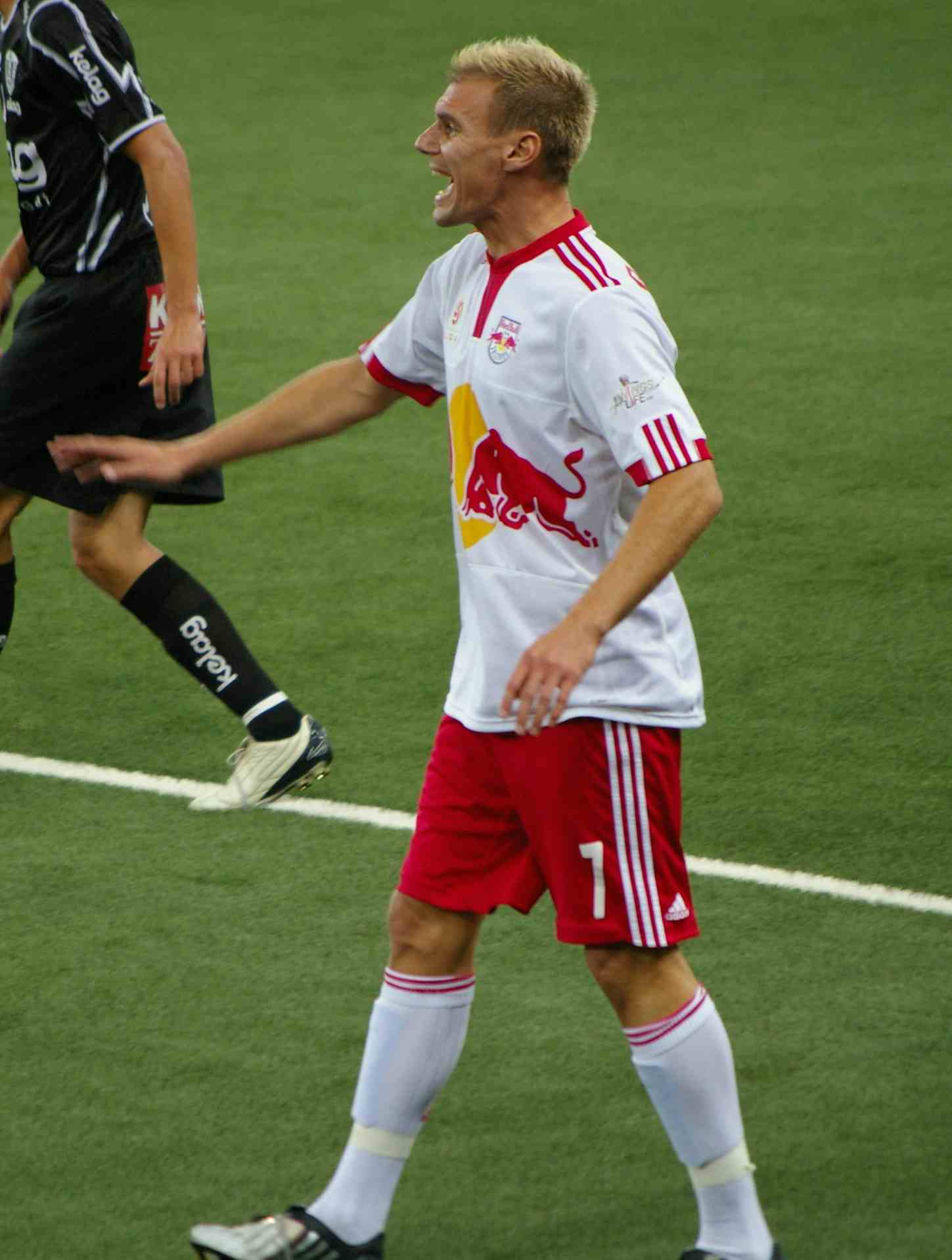 Alexander Zickler striker FC Red Bull Salzburg